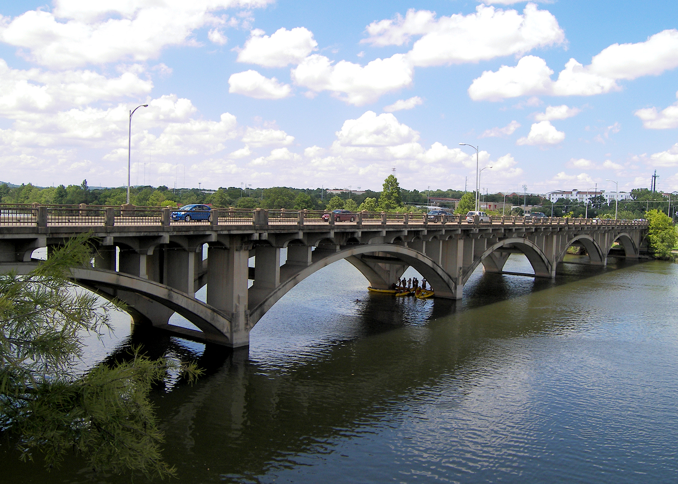 The historic Lamar Boulevard Bridge located in Austin, Texas, United States.